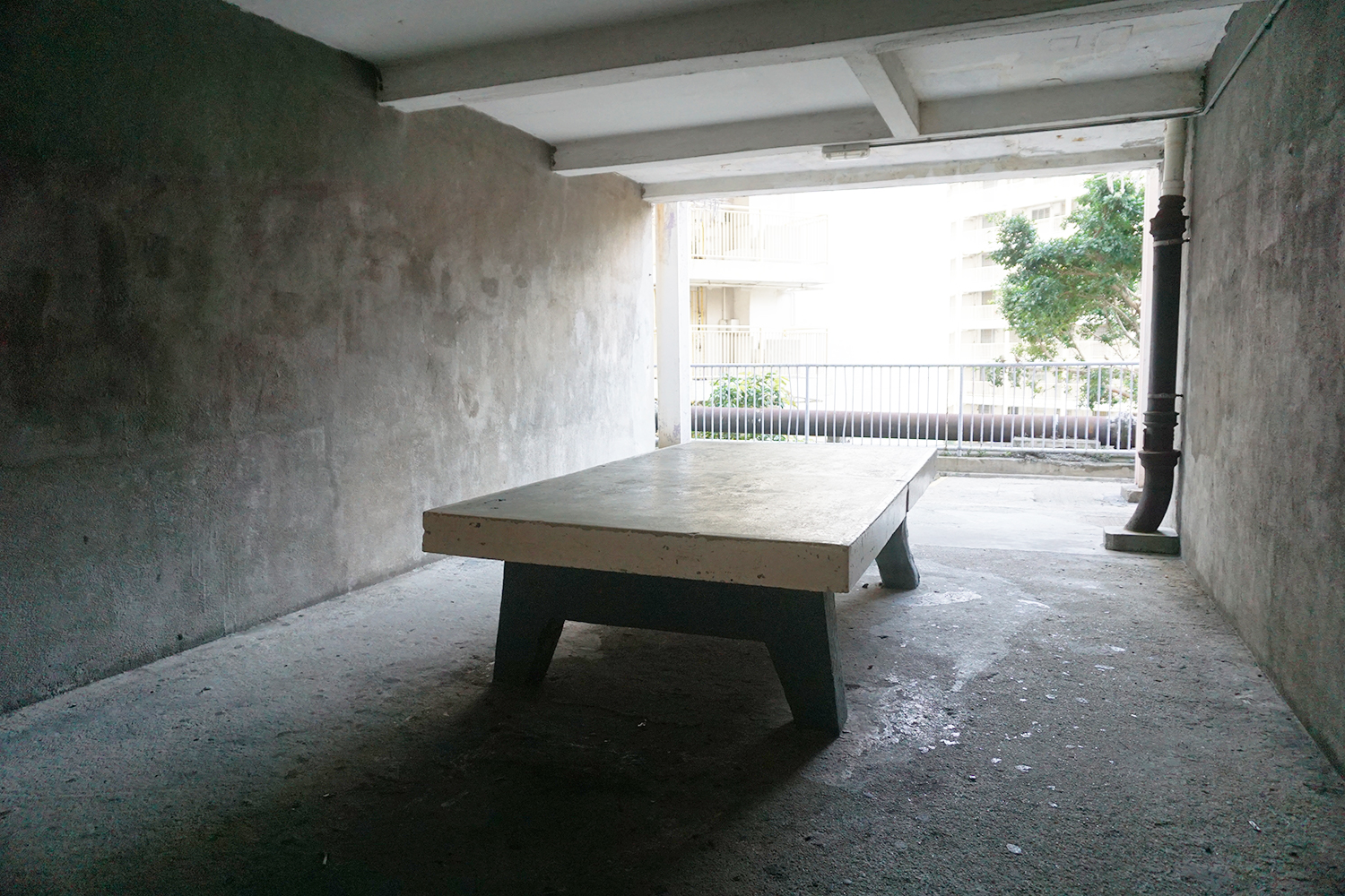 Wah Fu (II) Estate in Pok Fu Lam, Hong Kong.